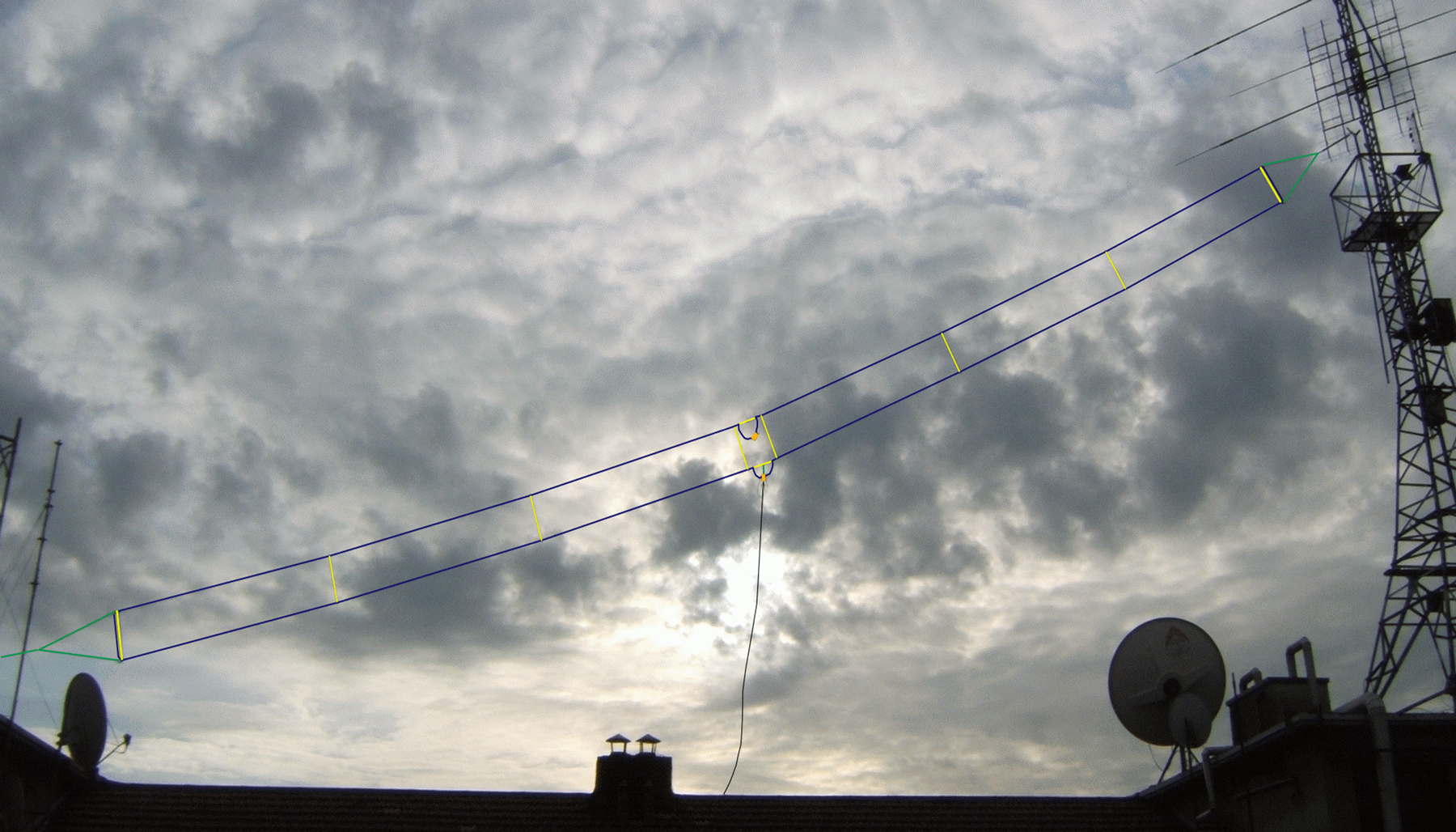 T2FD antenna for High Frequency (shortwave), sized for transmit coverage of the 5-30MHz band. Capable of receiving signals down to 3MHz with reduced sensitivity. Omnidirectional. Length is 20m. Height difference between extremities is approximately 10m. In this version components are highlighted: BLUE = antenna proper, single conductor wire; BLACK = coaxial cable lead; YELLOW = nonconducting material dowels and other rigid insulators; GREEN = nonconducting rope; ORANGE = resistor box (on upper wire) and balun box (on lower wire). See also the original image, T2FD_Antenna.png.